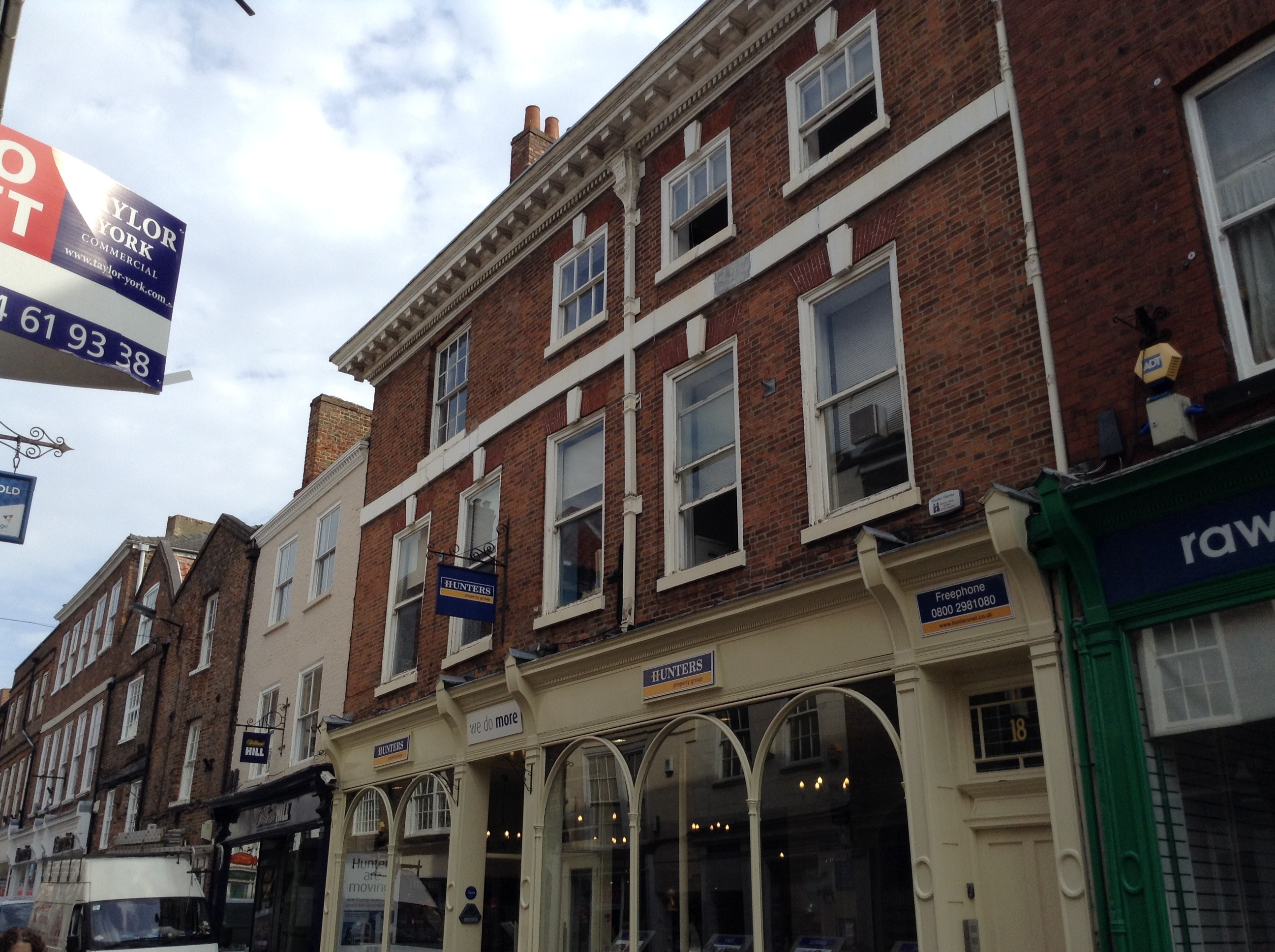 18 and 19 Colliergate